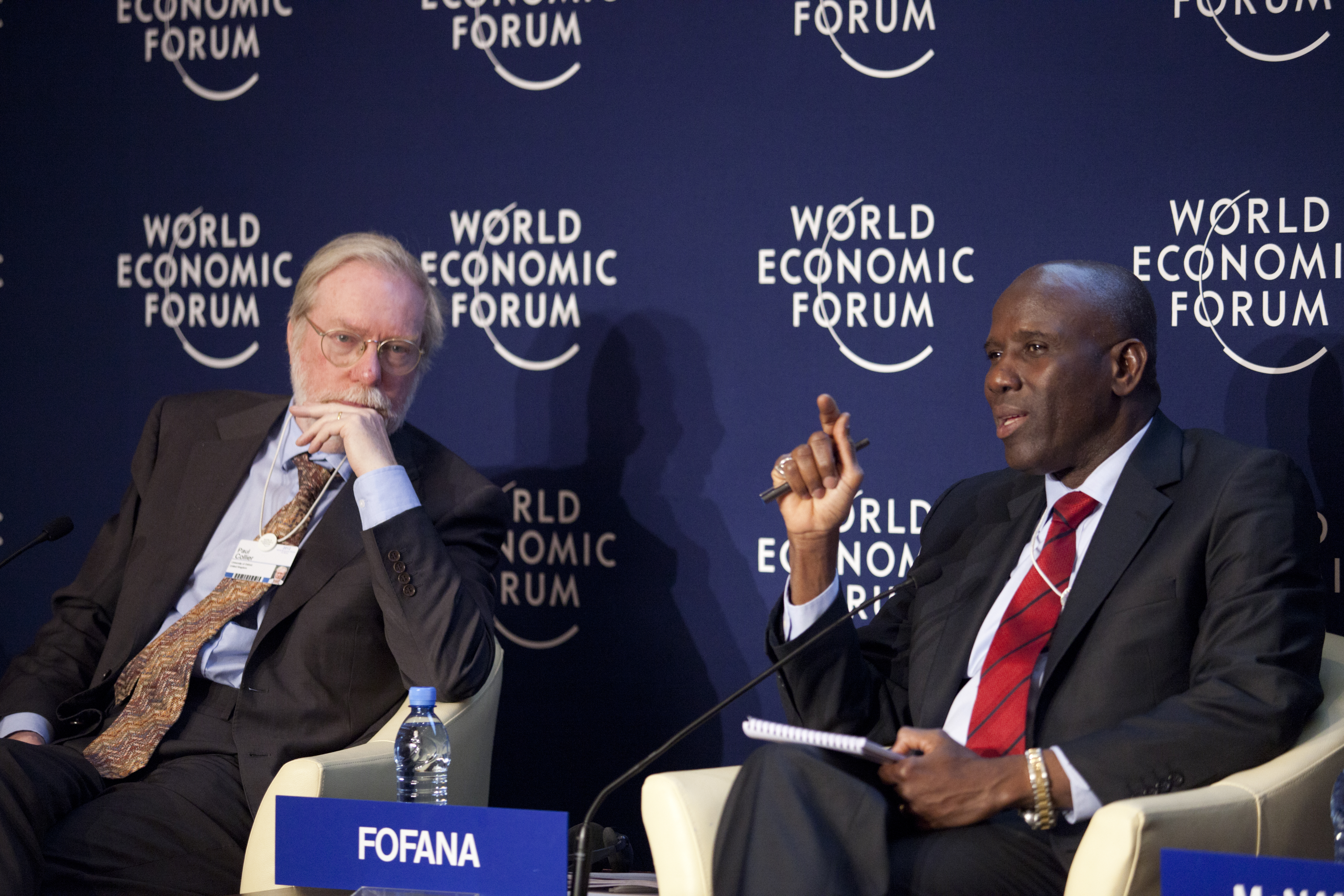 ADDIS ABABA/ETHIOPIA, 09-11 MAY 2012 - Paul Collier Professor of Economics, Department of Economics, University of Oxford United Kingdom and Mohamed Lamine Fofana, Minister of Mines and Geology of Guinea, captured during Africa's Future Economy Session at the World Economic Forum on Africa held in Addis Ababa, Ethiopia, 9-11 May, 2012.